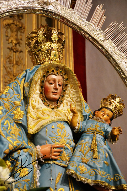 Nuestra Señora de Guía Coronada